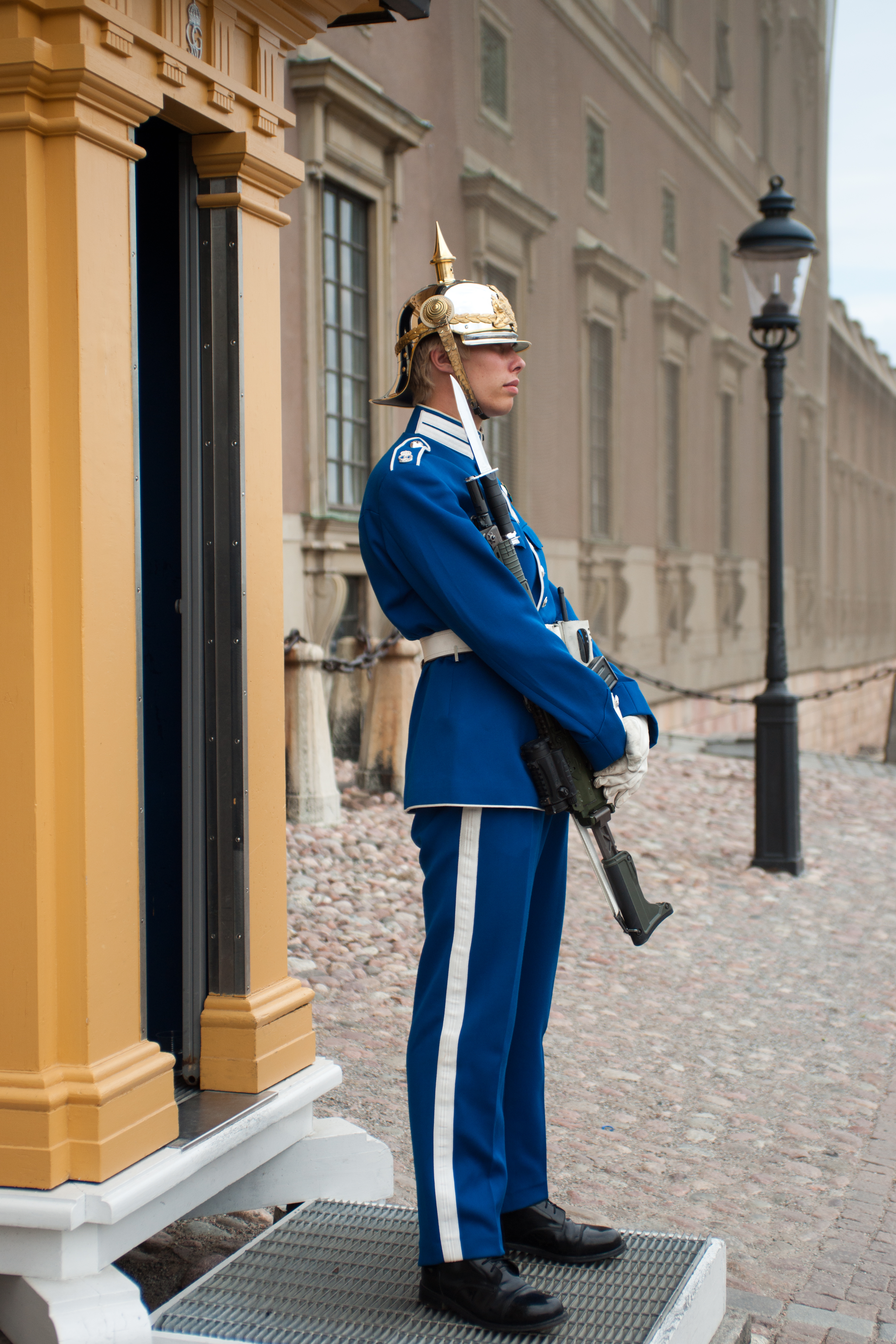 Royal Guard, Stockholm, Sweden.